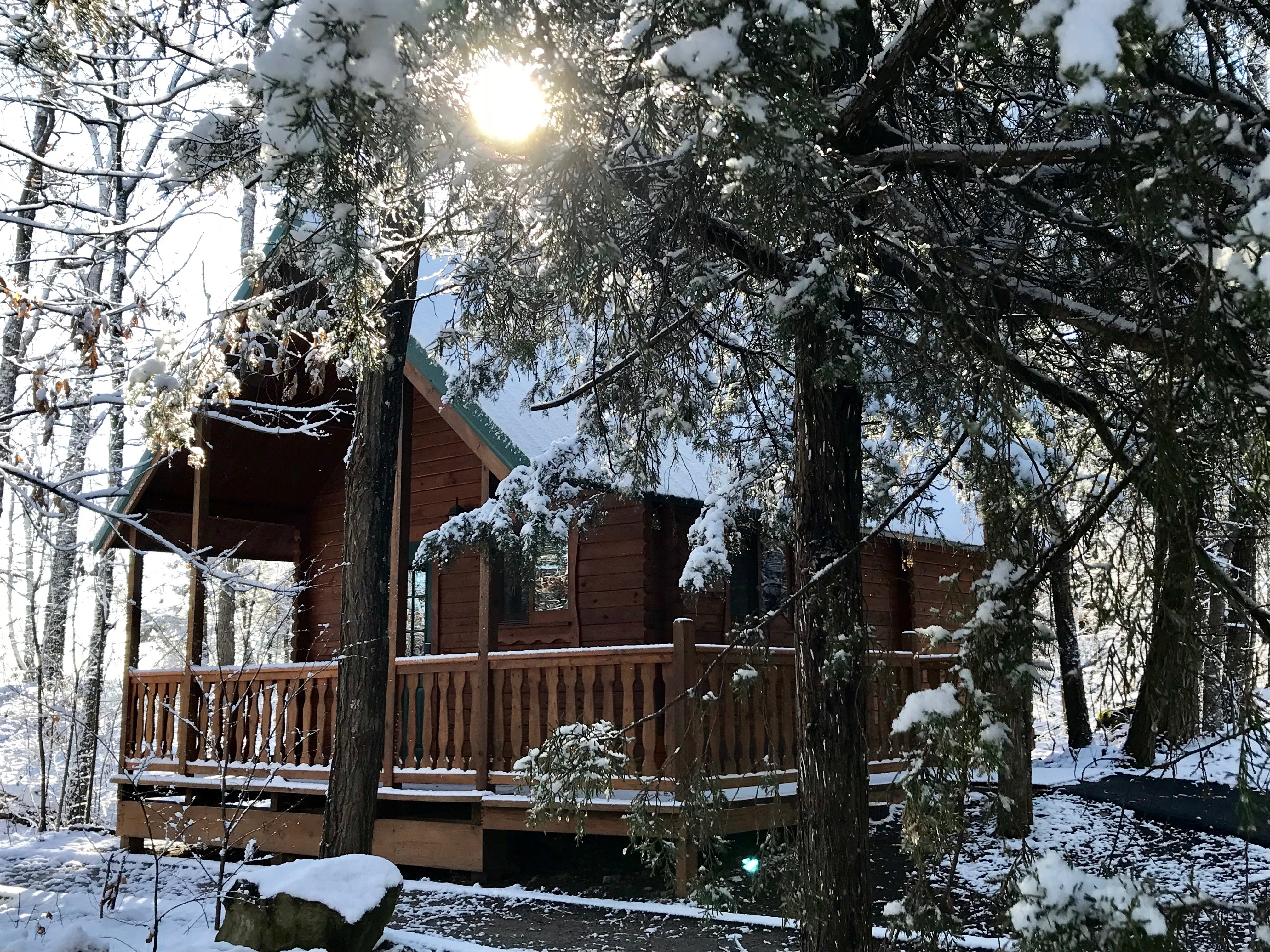 This is a cabin at Klondike Park covered in snow among trees in the winter time.